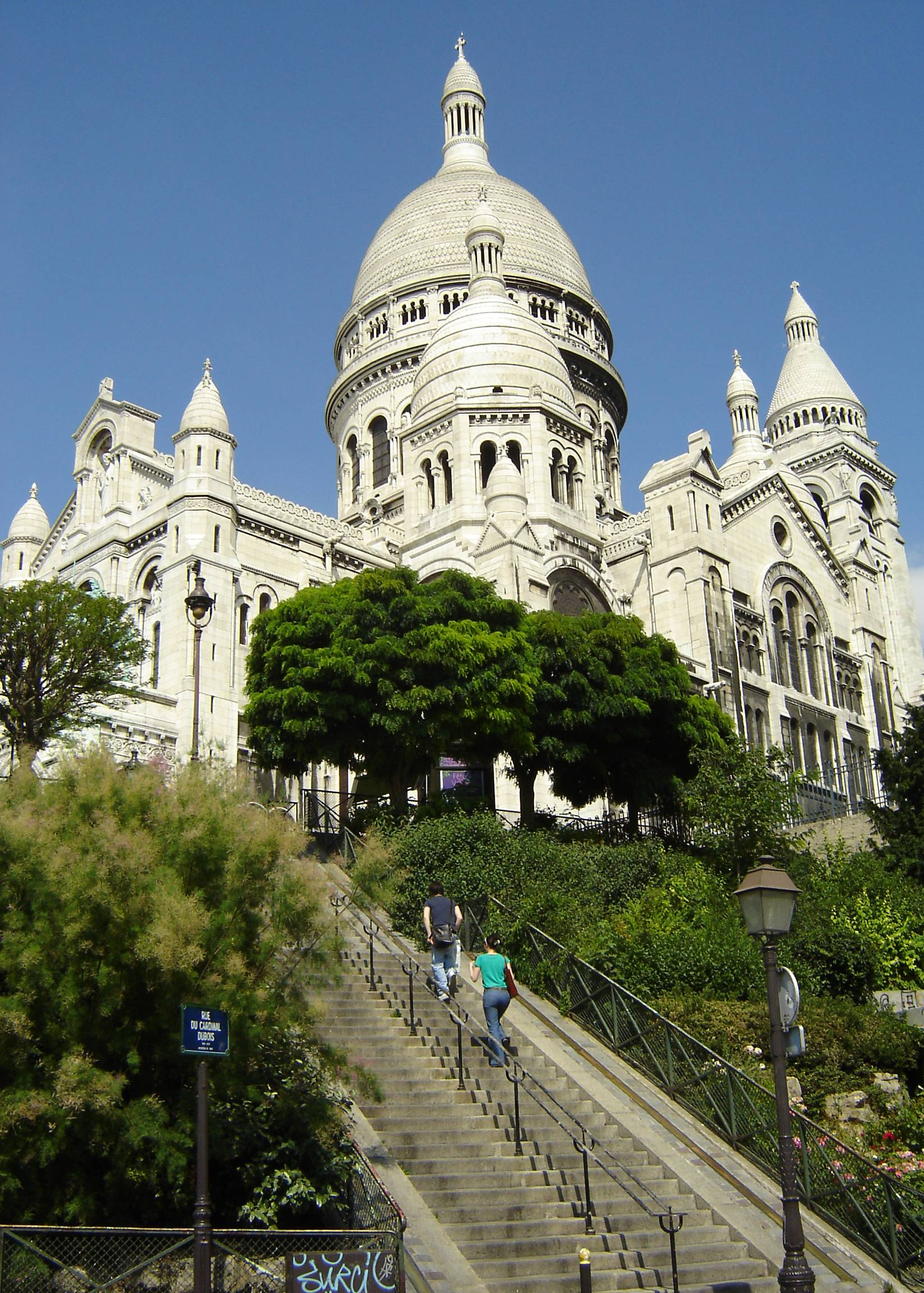 View of Sacré-Cœur taken from below.